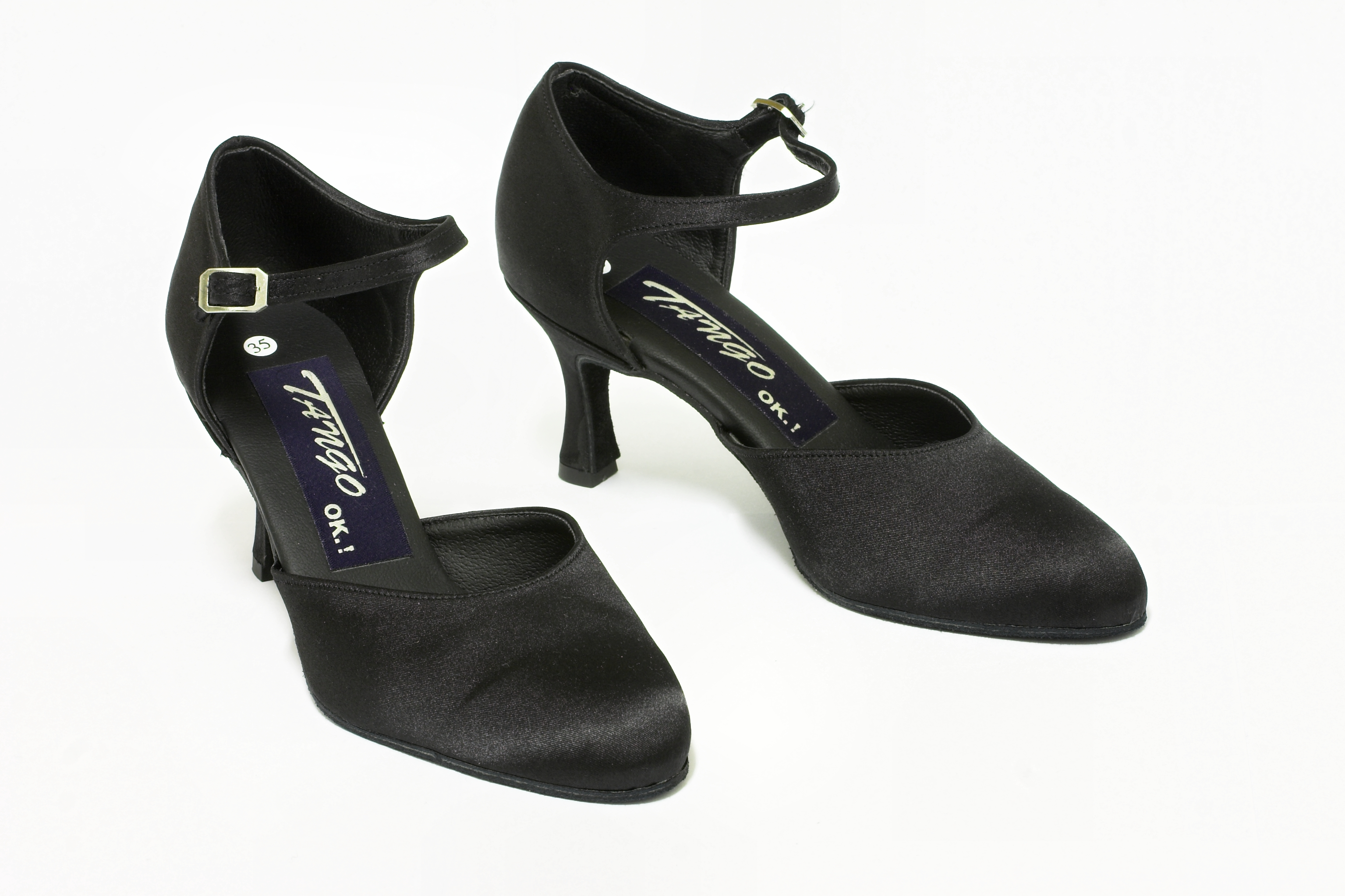 Ladies' ballroom shoes by Tango Shoes, Buenos Aires.